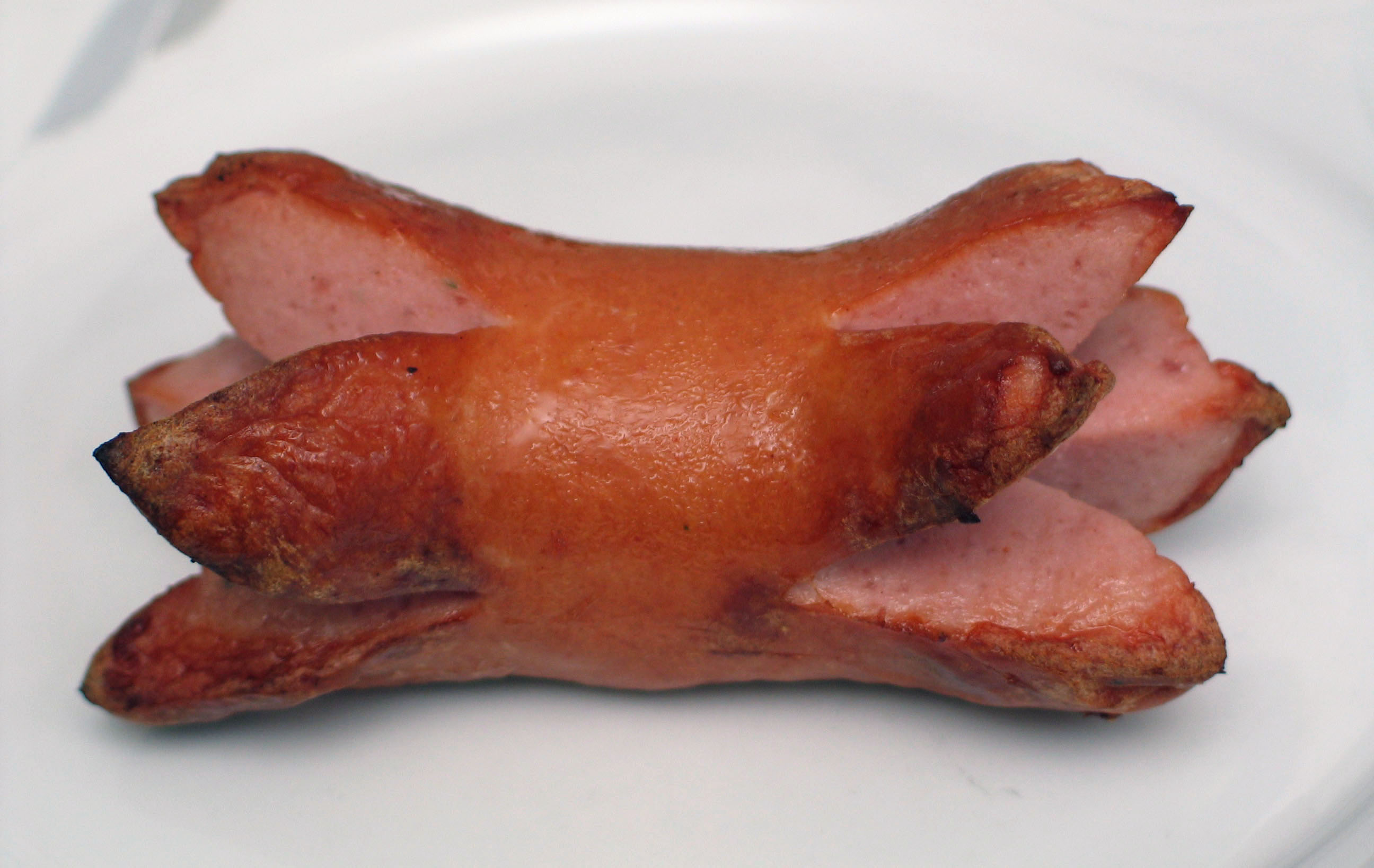 A grilled cervelat with its ends cut open in the traditional Swiss manner.